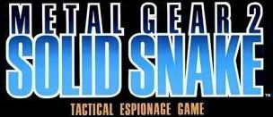 Logo from the Konami's Metal Gear 2: Solid Snake videogame (North American box art).